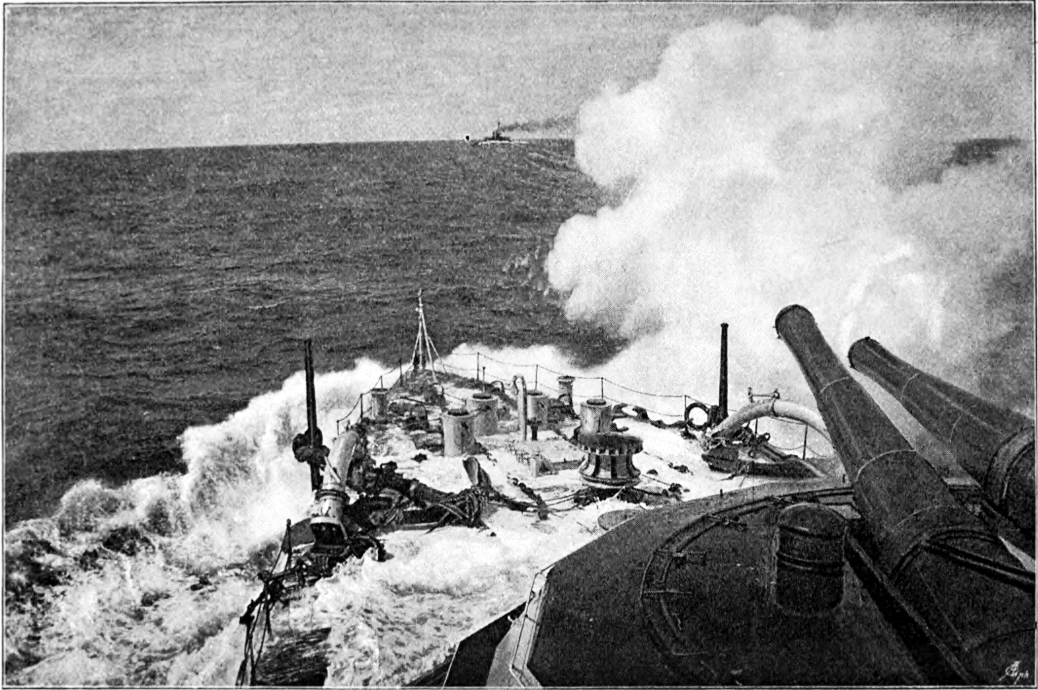 The Rodney steaming and firing Plate from Eardley-Wilmot: The Development of Navies Please do not rotate this copy